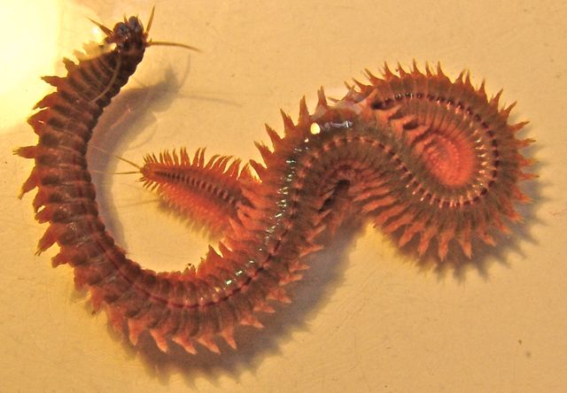 Nereis - found on Greater Cumbrae, Scotland